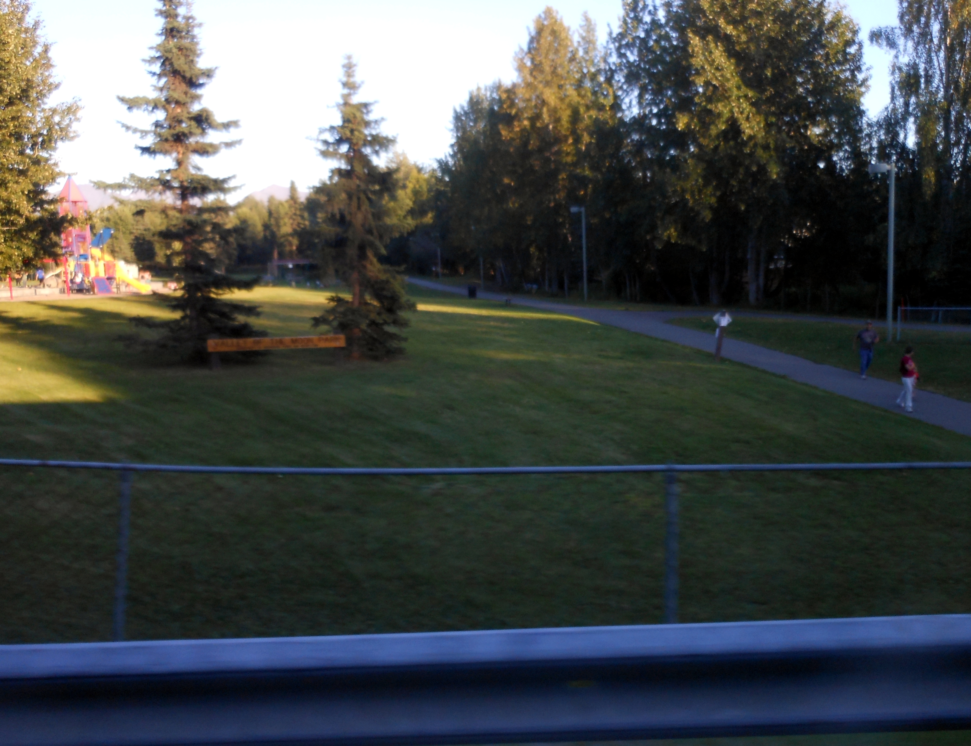 Valley of the Moon Park, one of the more visible elements of the Chester Creek Greenbelt in Anchorage, Alaska. This shows the western end of the park as taken from the intersection where 17th Avenue turns into Arctic Boulevard, near the playground containing its iconic rocket-shaped slide.